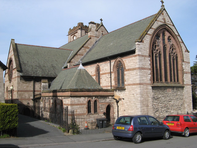 Photograph of St Paul's Church, Colwyn Bay